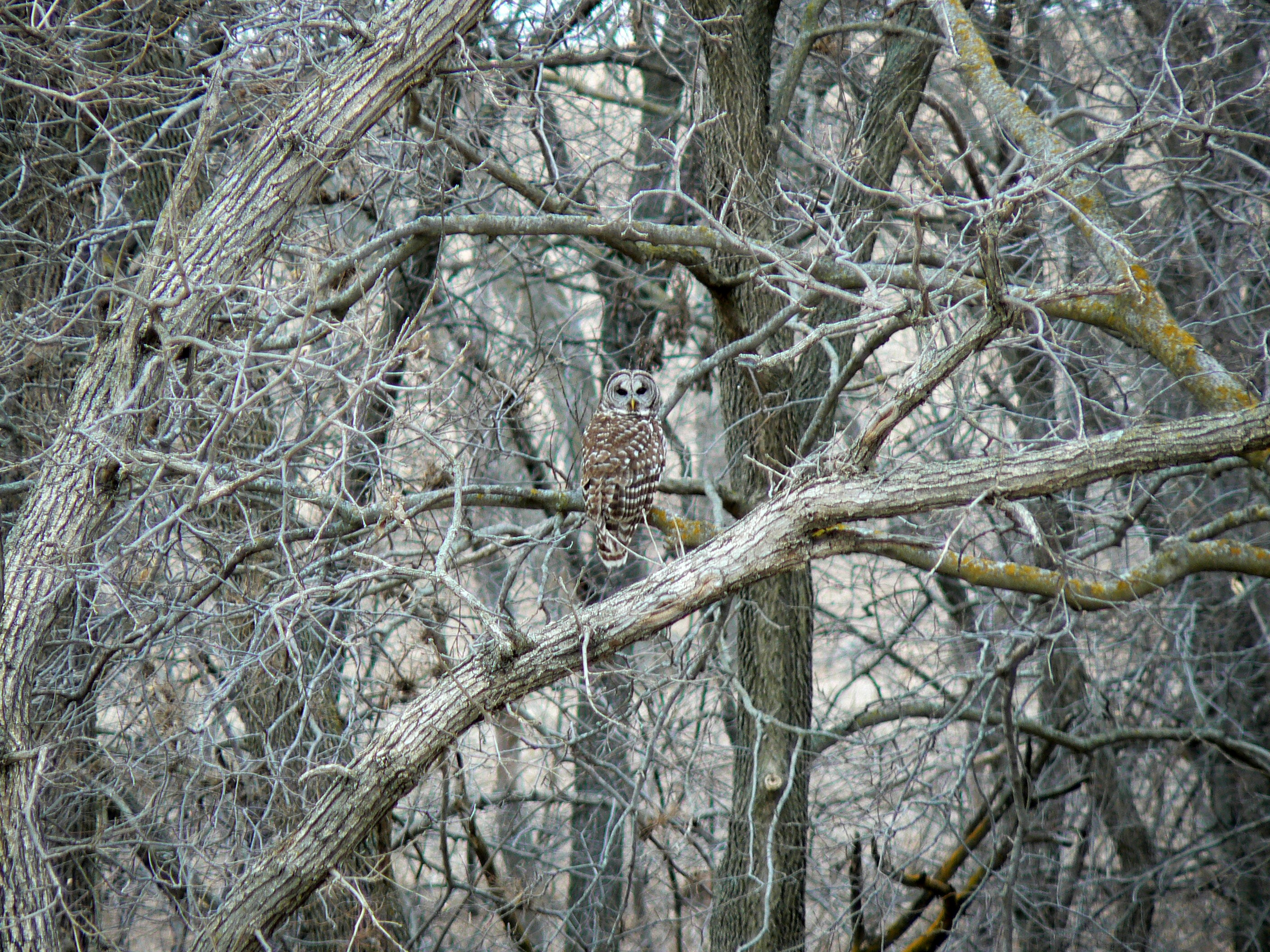 Barred Owl